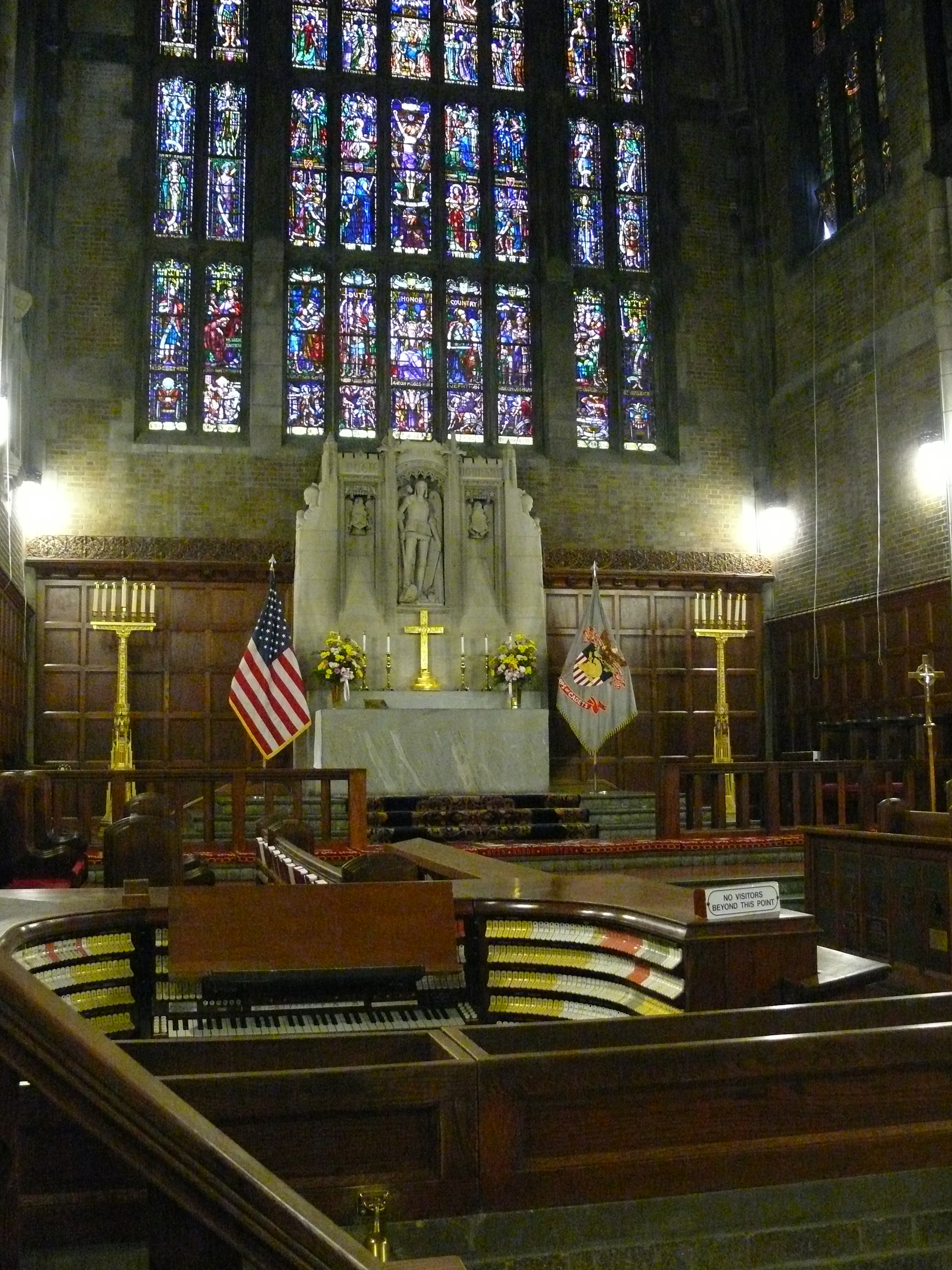 Interior of the West Point Cadet Chapel, a place of Protestant denomination worship for many members of the United States Corps of Cadets. The Cadet Chapel was designed by Cram, Goodhue and Ferguson. It houses the largest church organ (M.P. Moeller) in the world. The organ was begun in 1911 and was enlarged by memorial gifts. The stained glass windows have been executed by the Willet Studios of Philadelphia.